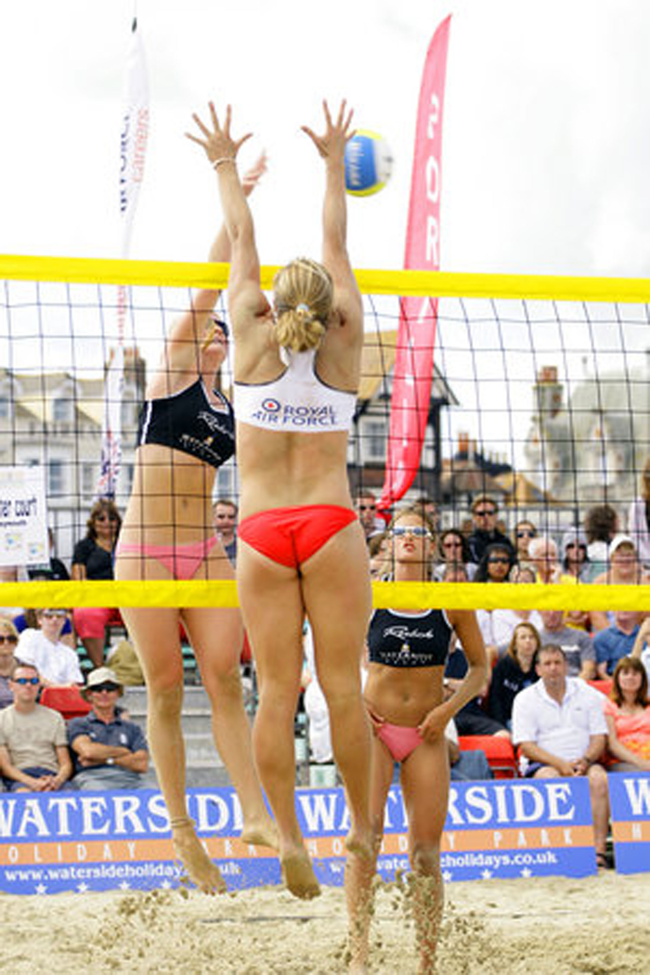 Beach Volleyball Classic 2007 Weymouth Dorset ENGLAND